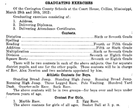 Graduation exercise program from 1912